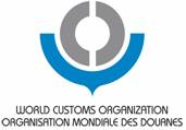 This is the logo of WCO